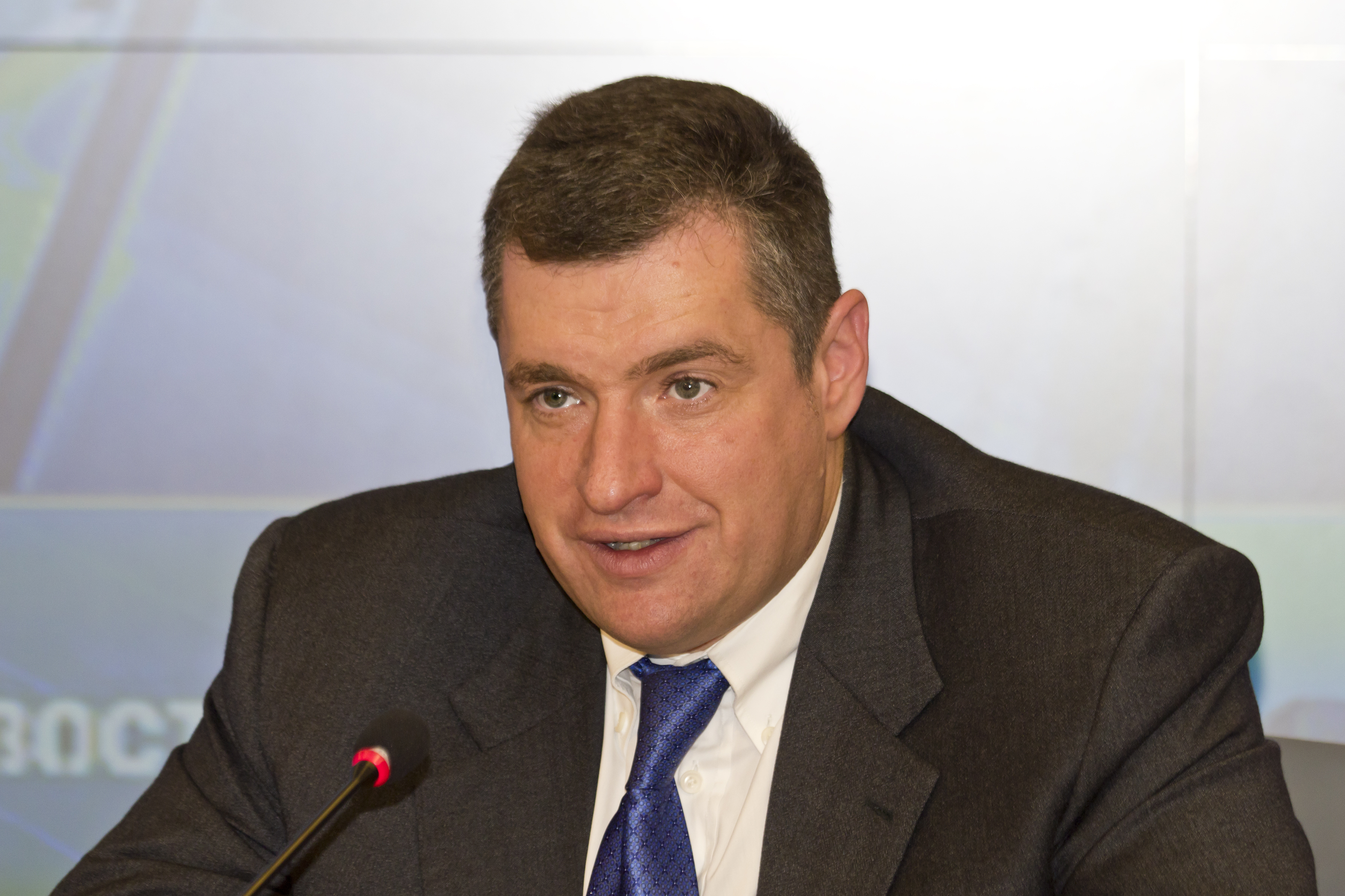 Leonid E. Slutsky, Russian politician. Taken at Press center of RIAN, Moscow.